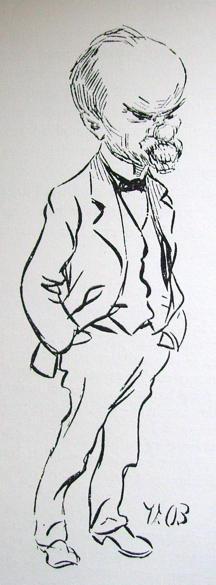 Picture of drawing of Daniel Persson i Tällberg, published in Puck